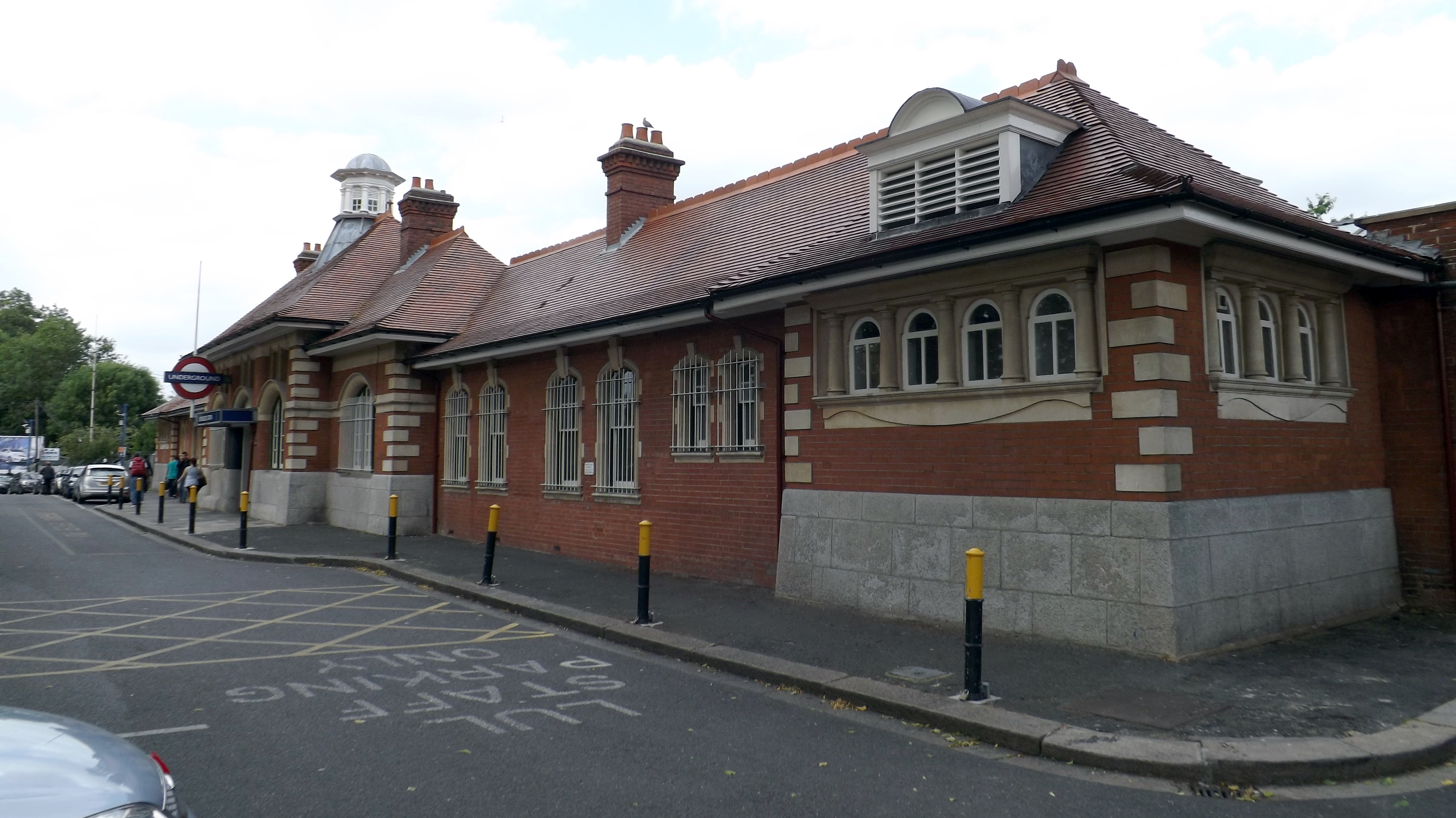 Barkingside tube station in July 2013